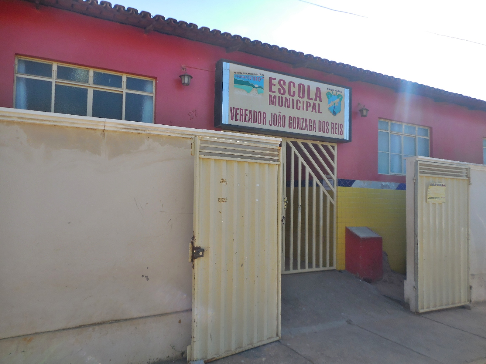 Entrance of the Vereador João Gonzaga dos Reis municipal school, in Pingo-d'Água, Minas Gerais, Brazil.